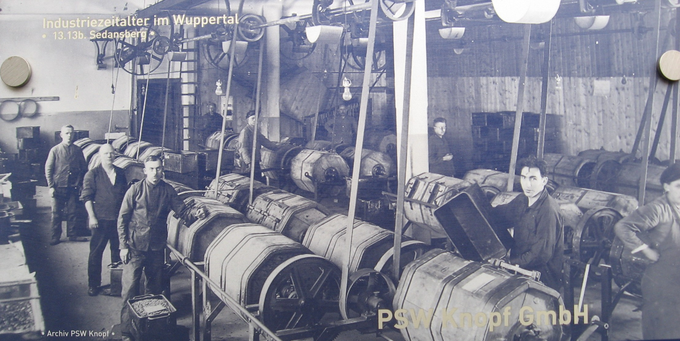 View from Alarichstraße to the industrial building "PSW-Knopffabrik" at Wuppertal